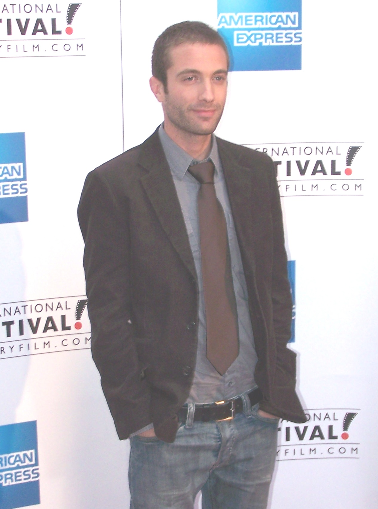 This is Jacob Tierney on the red carpet at the gala showing of Walk All Over Me during the Calgary International Film Festival. The film was shown at the Uptown Stage at 612 8th Avenue SW, Calgary, Alberta, Canada.